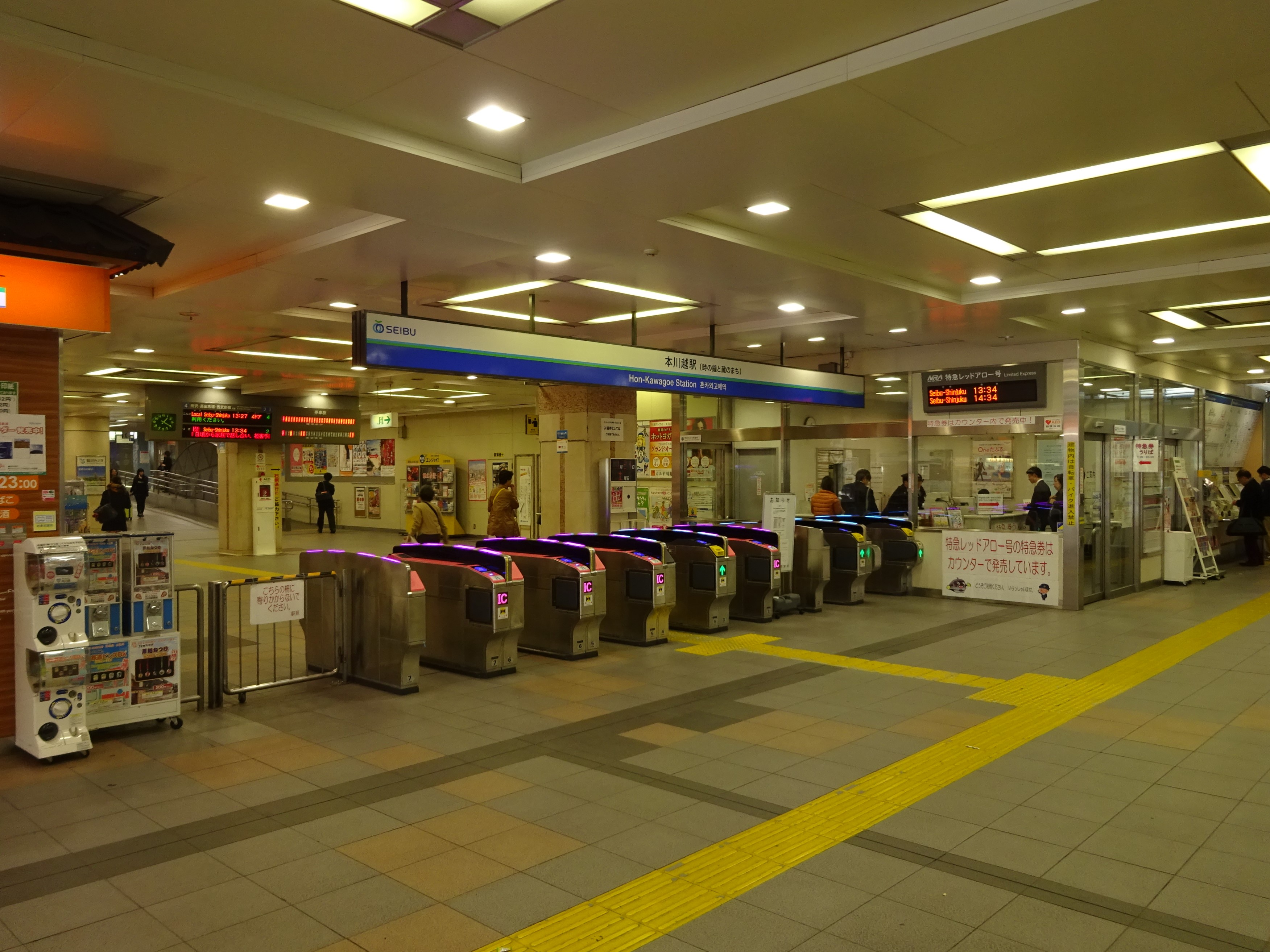 The ticket barriers at Hon-Kawagoe Station